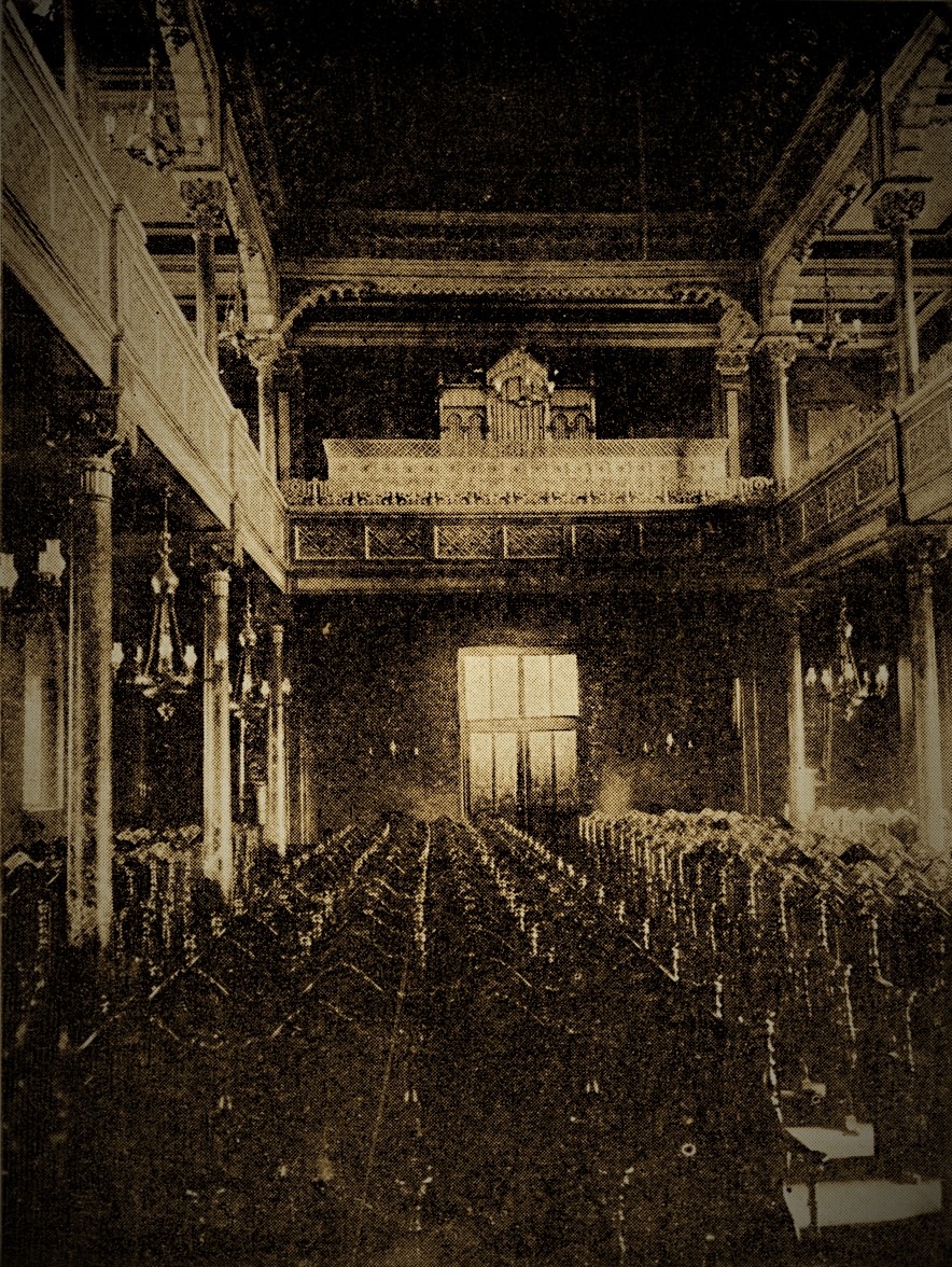 Grand Spanish Temple, "Cahal Grande" synagogue, located on 12 Negru Vodă Street , Bucharest, 1900.